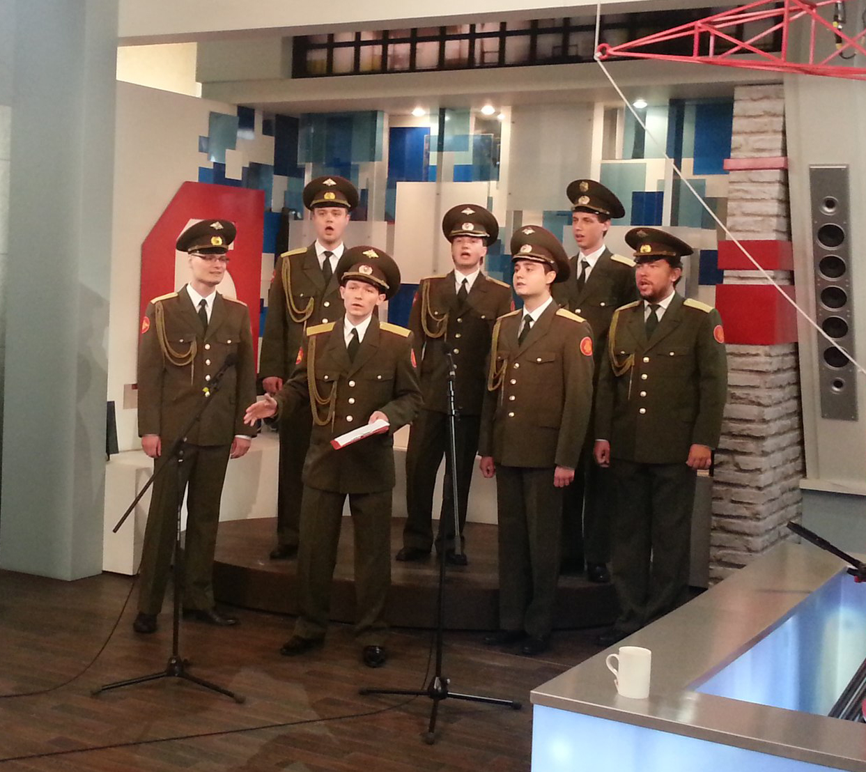 Perfomance "Skyfall" on TV